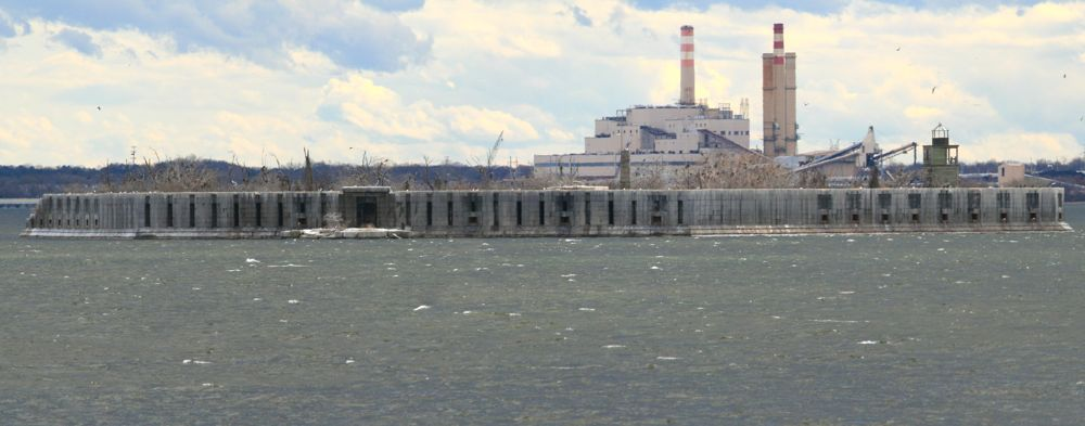 Fort Carroll from Fort Armistead, at the entrance to Baltimore Harbor on the Patapsco River, Maryland, USA. Image by John Stanton of , reused under CC-by-SA license. The Herbert A. Wagner Generating Station is on the opposite shore.